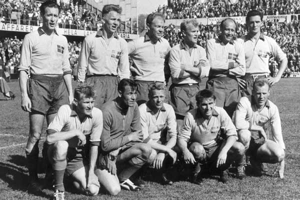 The starting 11 of the Swedish National football team before the 1958 World Cup final.